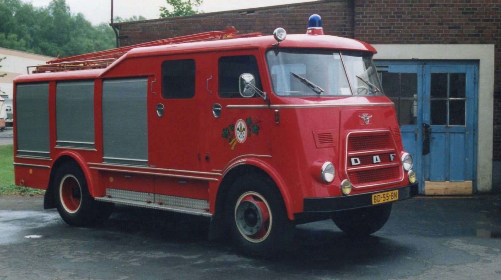 A Dutch firebrigade car